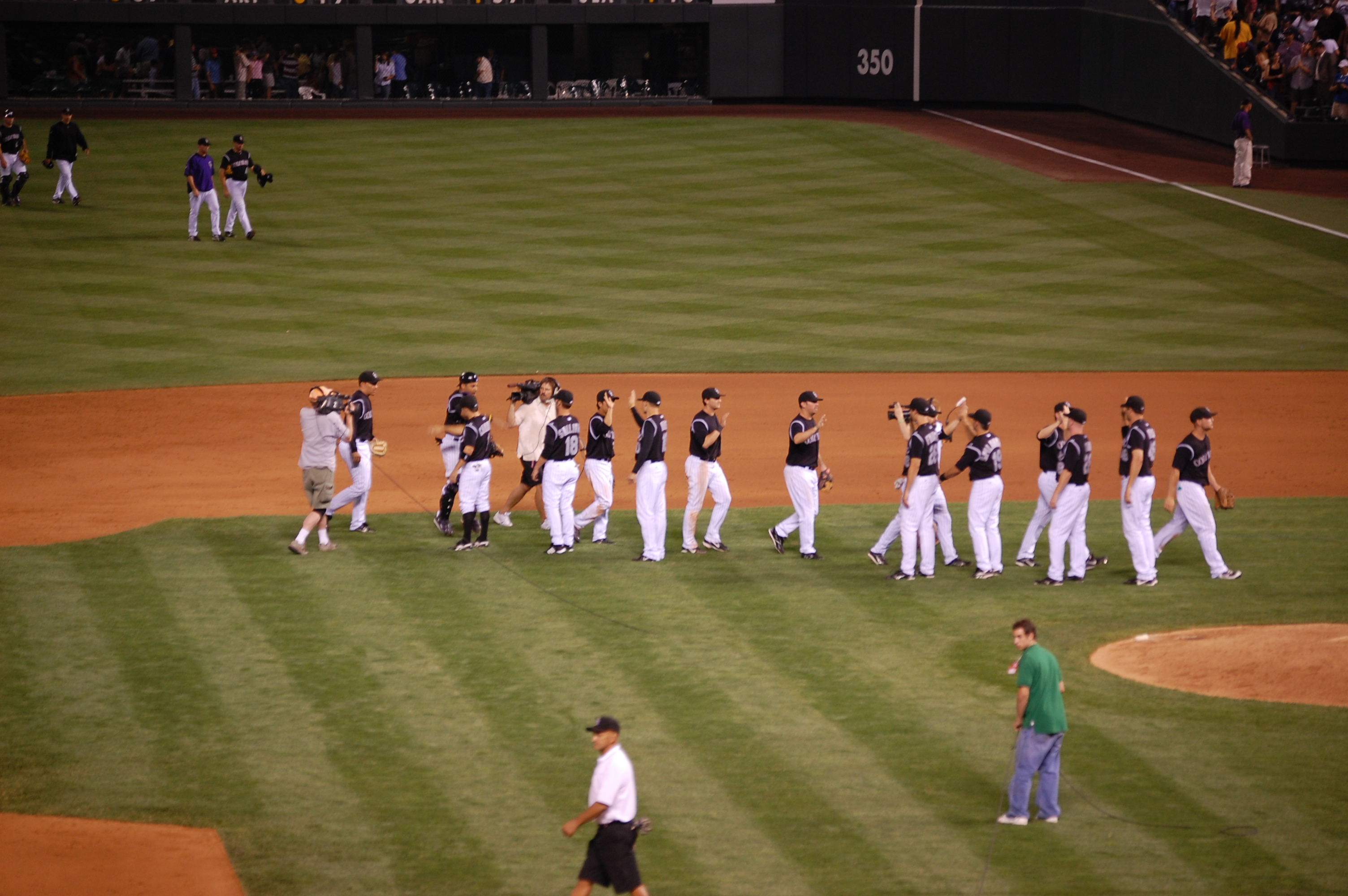 own work, gfdl 05:16, 30 June 2007 . . Onetwo1 . . 3008×2000 (1.49 MB)